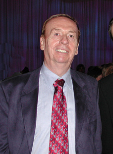 Geoffrey Emerick, a recording studio audio engineer who is best known for his work with the Beatles' albums Revolver, Sgt. Pepper's Lonely Hearts Club Band, The Beatles and Abbey Road. “45th Grammy Trustees Award, New York 2003”